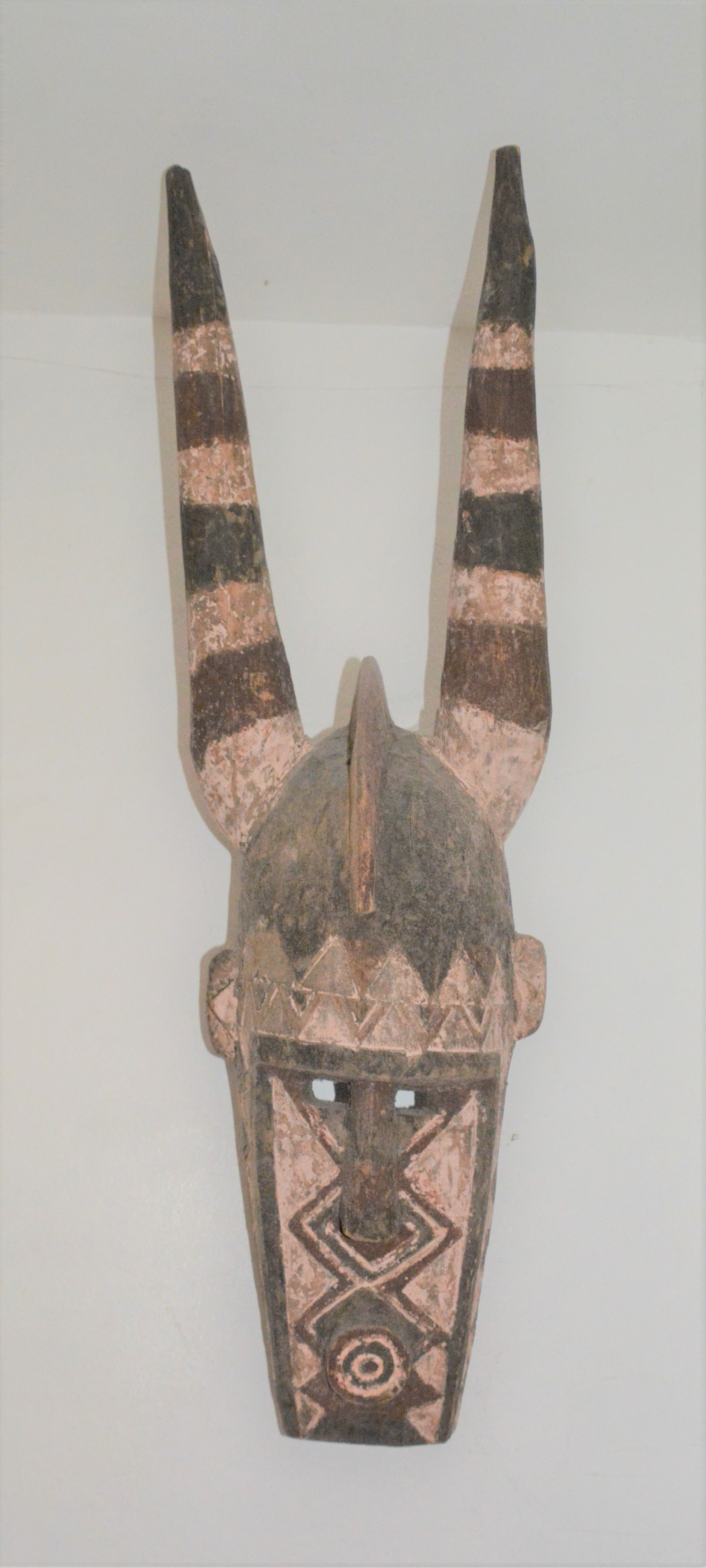 African mask, probably from West Africa